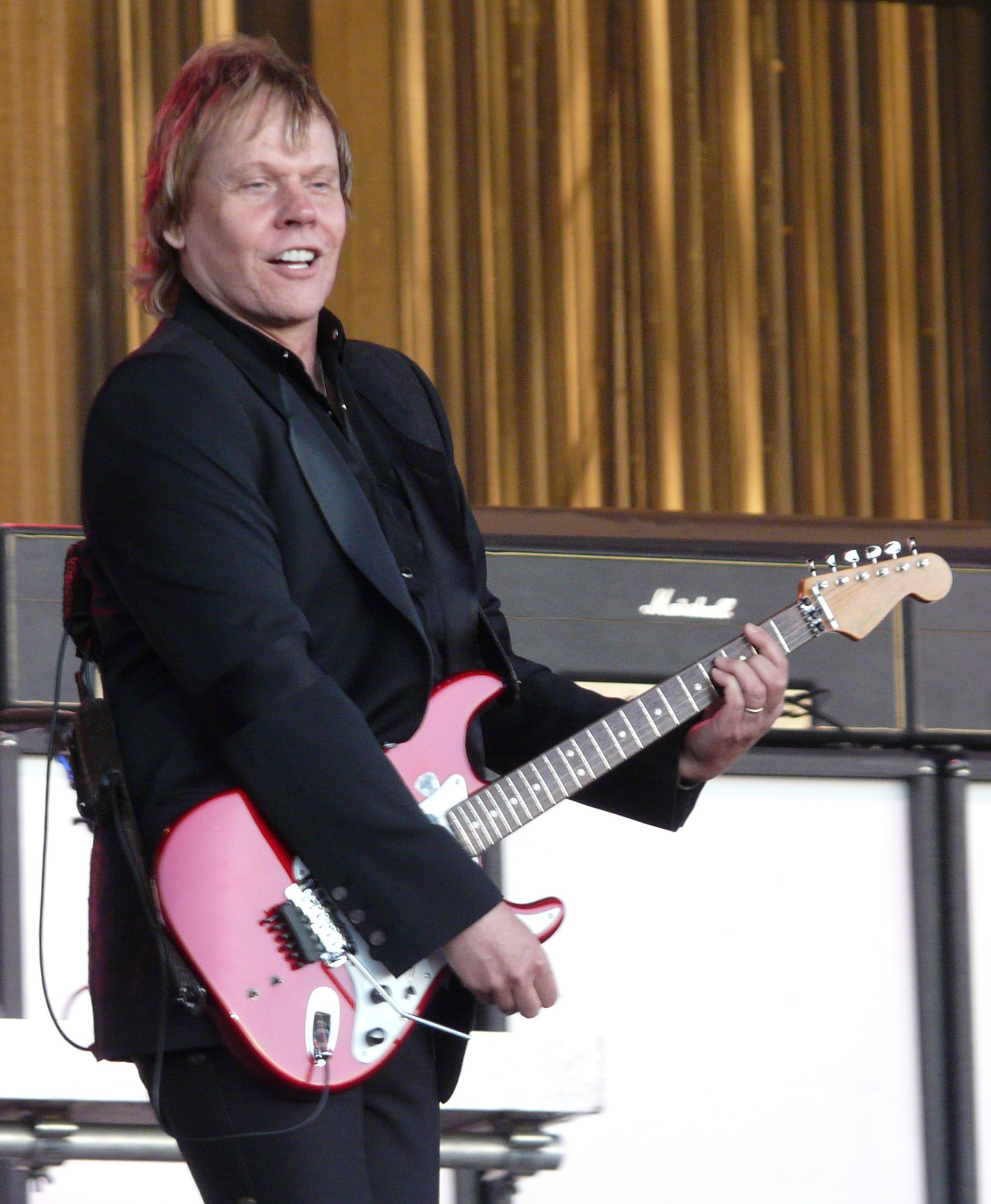 JAMES "JY" YOUNG of STYX PHOTO BY MATT BECKER Taken on June 13, 2008 at the Grand Casino in Hinckley, MN